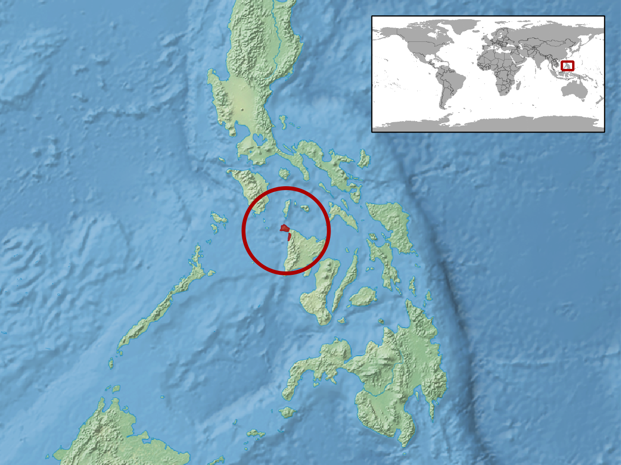 geographic distribution of Gekko ernstkelleri (Native: Philippines)